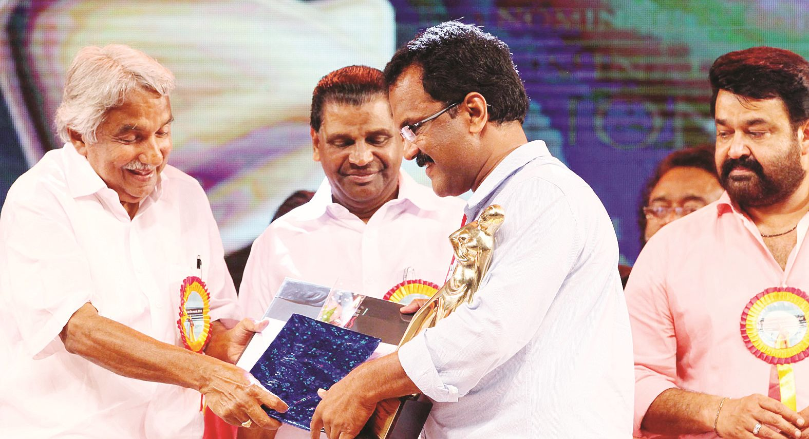 Receiving Award form Chief Minister for best Lyricist